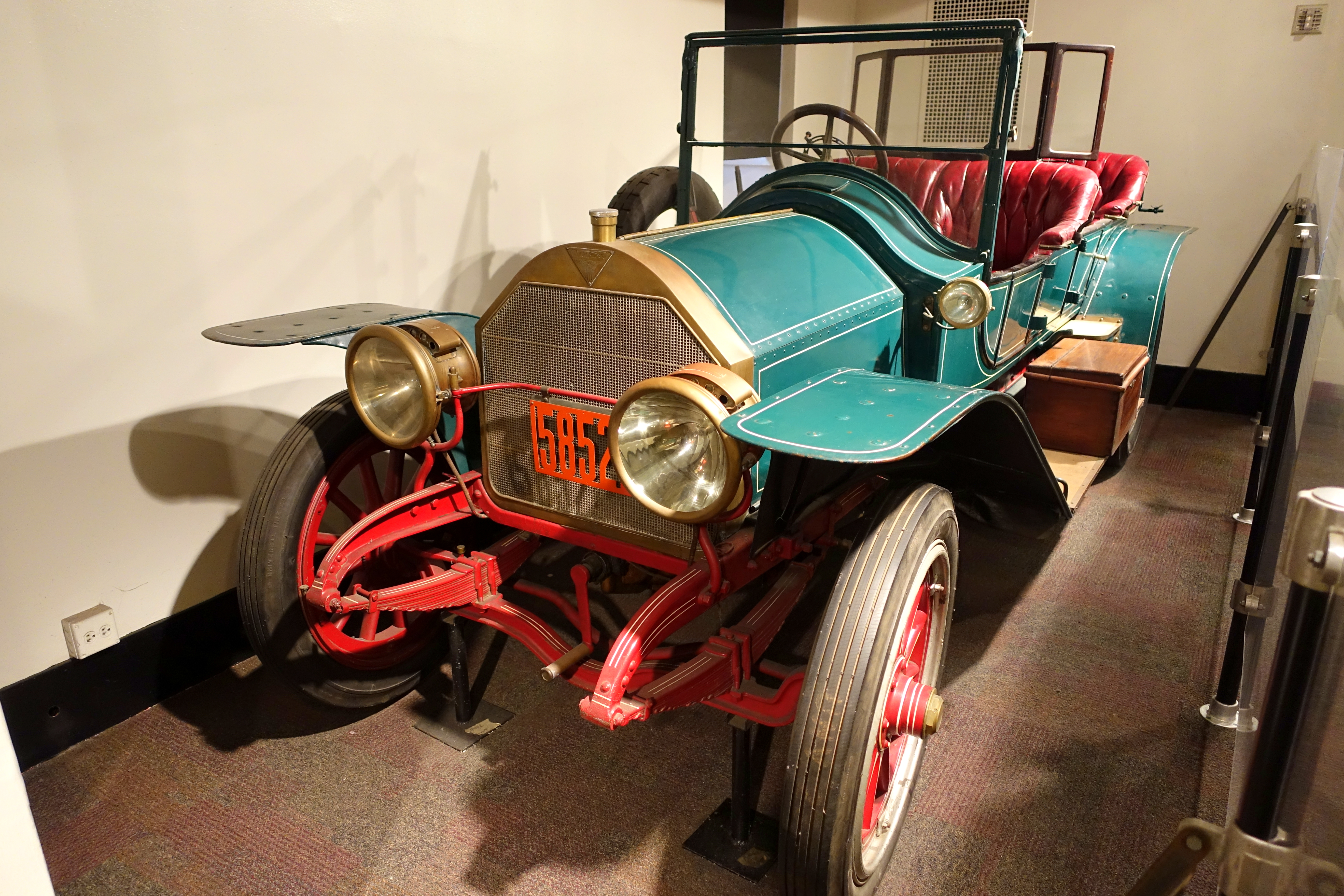 Exhibit in the Museum of Science and Industry, Chicago, Illinois, USA.